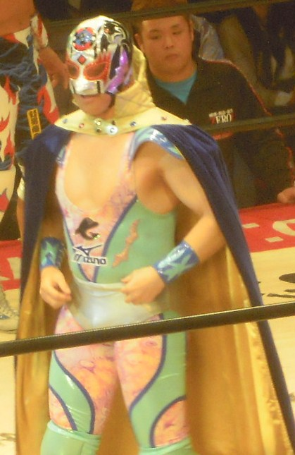 Japanese professional wrestler Super Delfin. Jan 8 2012 Bull Nakano Final Event. TOKYO DOME CITY HALL.